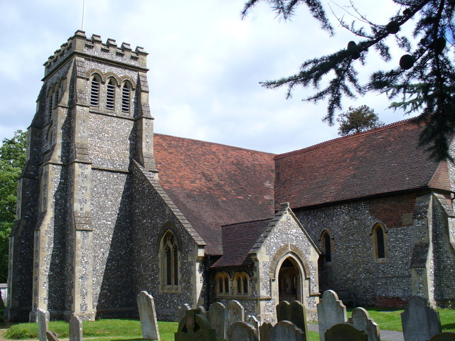 St Lawrence Church Effingham parish church. It has 14th century windows, and an 18th century tower.